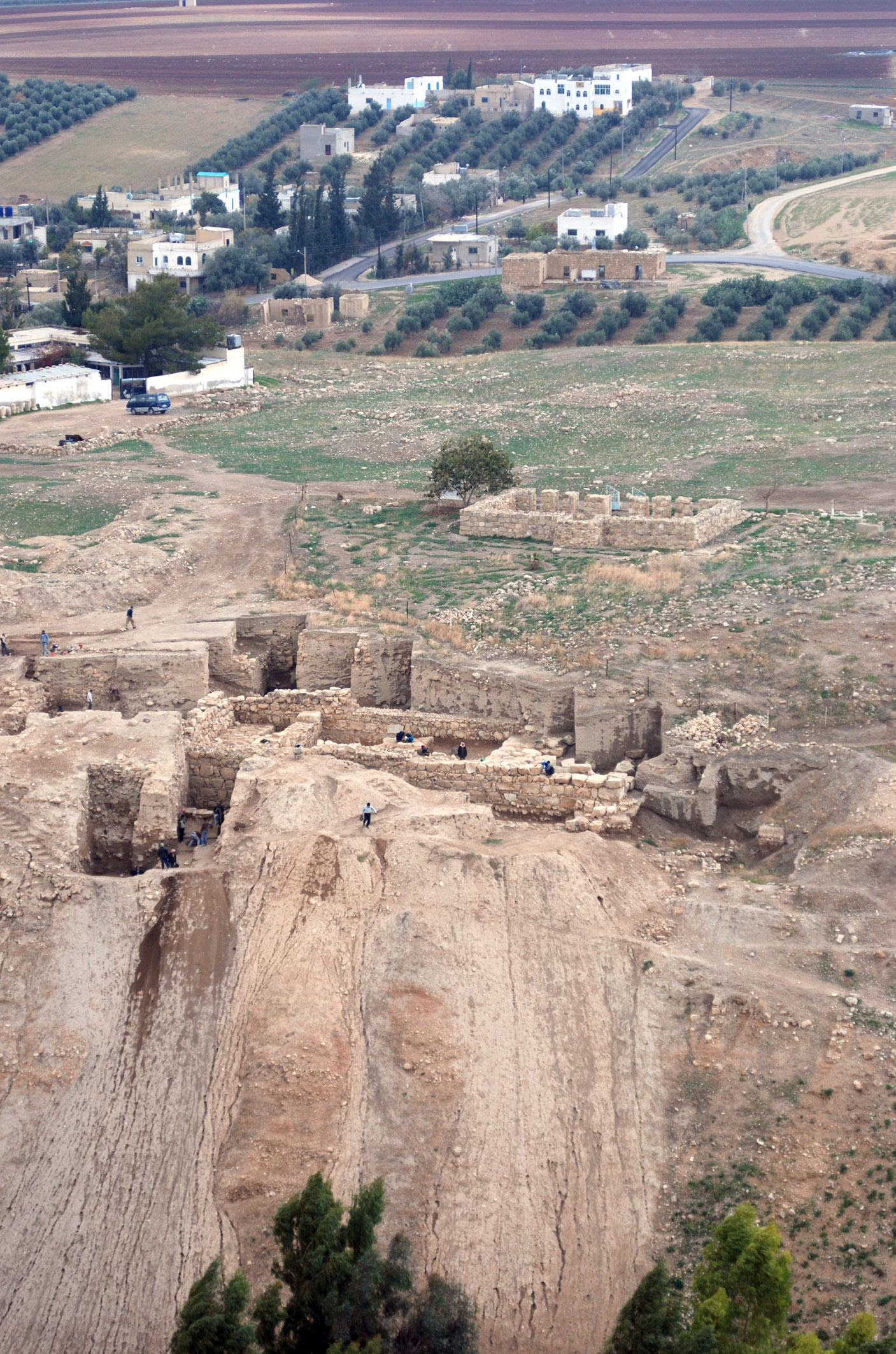 A view of Pella's Migdol (Fortress) Temple taken from Tell Husn (in this photo the temple is lower centre and has people working within it). This view is looking north and shows the full extent of the temple which, at 33 x 25 metres, is the largest of its type yet uncovered in the Levant.